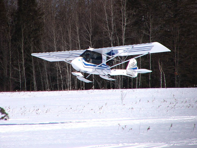 I took this photo of a Quad City Challenger II ultralight at the Cobden Ski Fly-in 20 Feb 2005